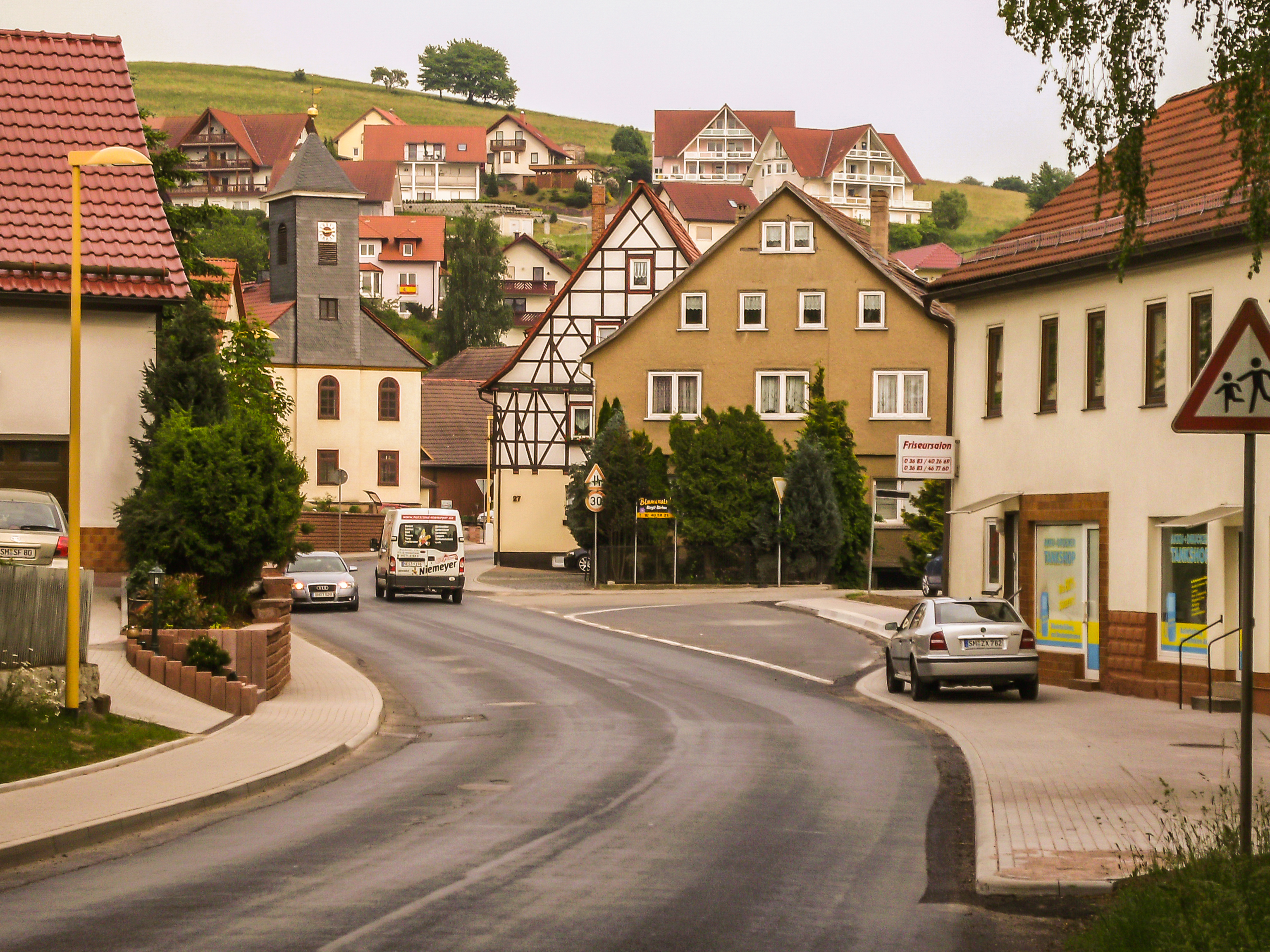 Schmalkalden, view to a street